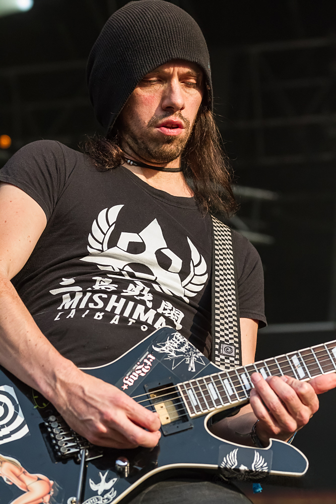 Sam Totman performing live with DragonForce at the 2013 Rock Harz.